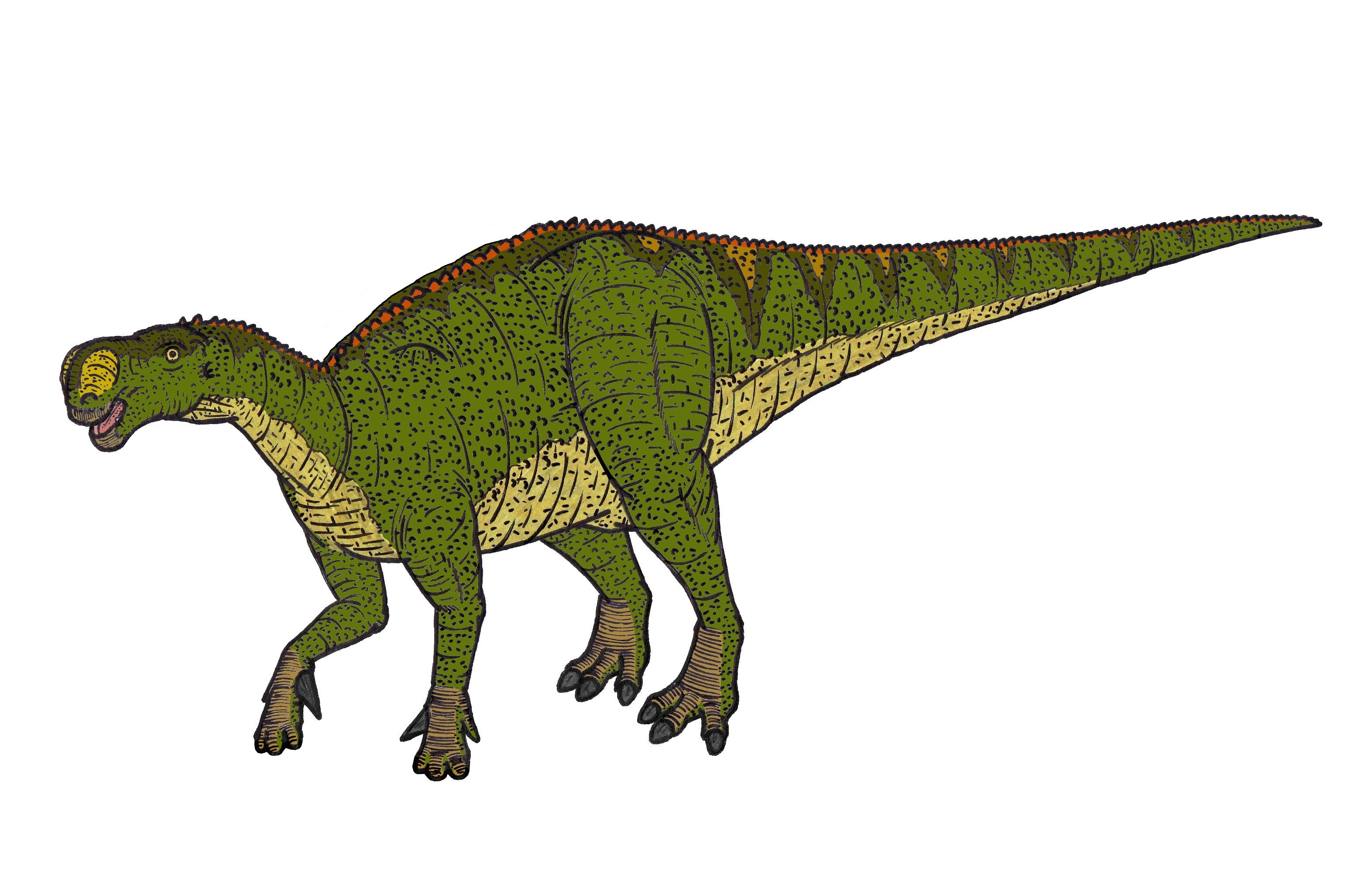 Restoration of the ornithopod dinosaur Altirhinus, an Asian relative of Iguanodon. Altirhinus had a weird skull with high profile and huge nostrils. It's unknow why the nose looked like it did. Some scientists belive it was part of a complex system for make singing or trumpeting sounds, a theory depicted here.